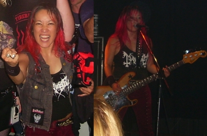 Rock bassist Janis Tanaka at a concert in Munich, Germany in July 2004.